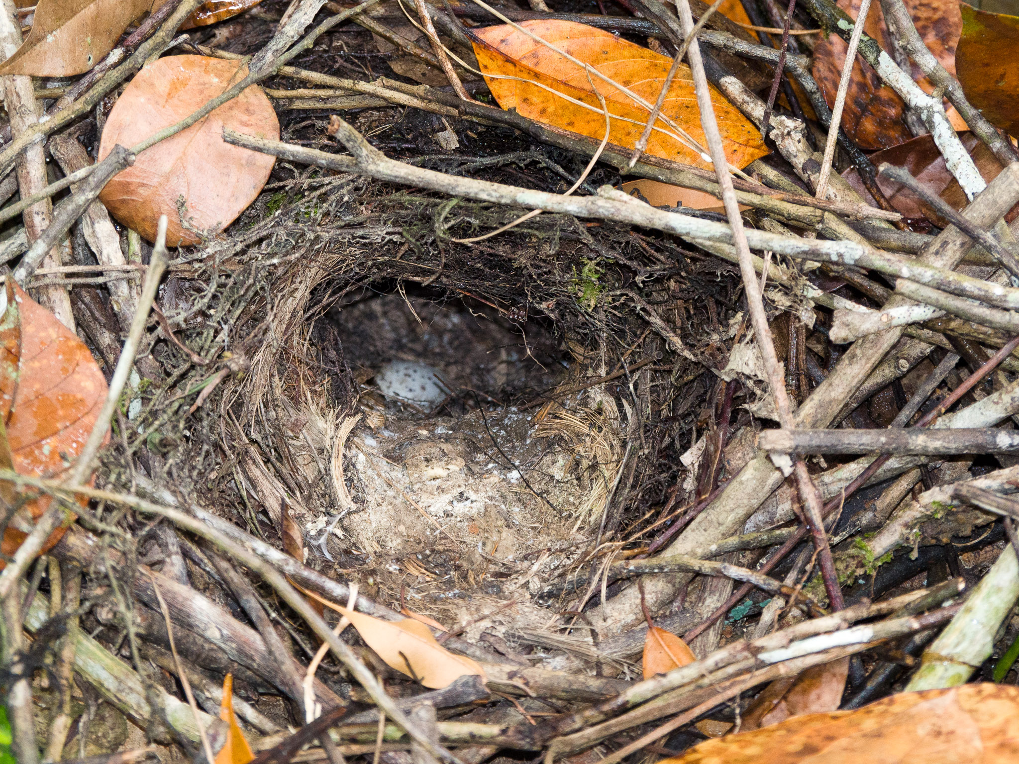 Nest of a Hooded pitta pair at Sepilok Jungle Resort in northern Sabah, Borneo, Malaysia. The young had already fledged, leaving one unhatched egg.